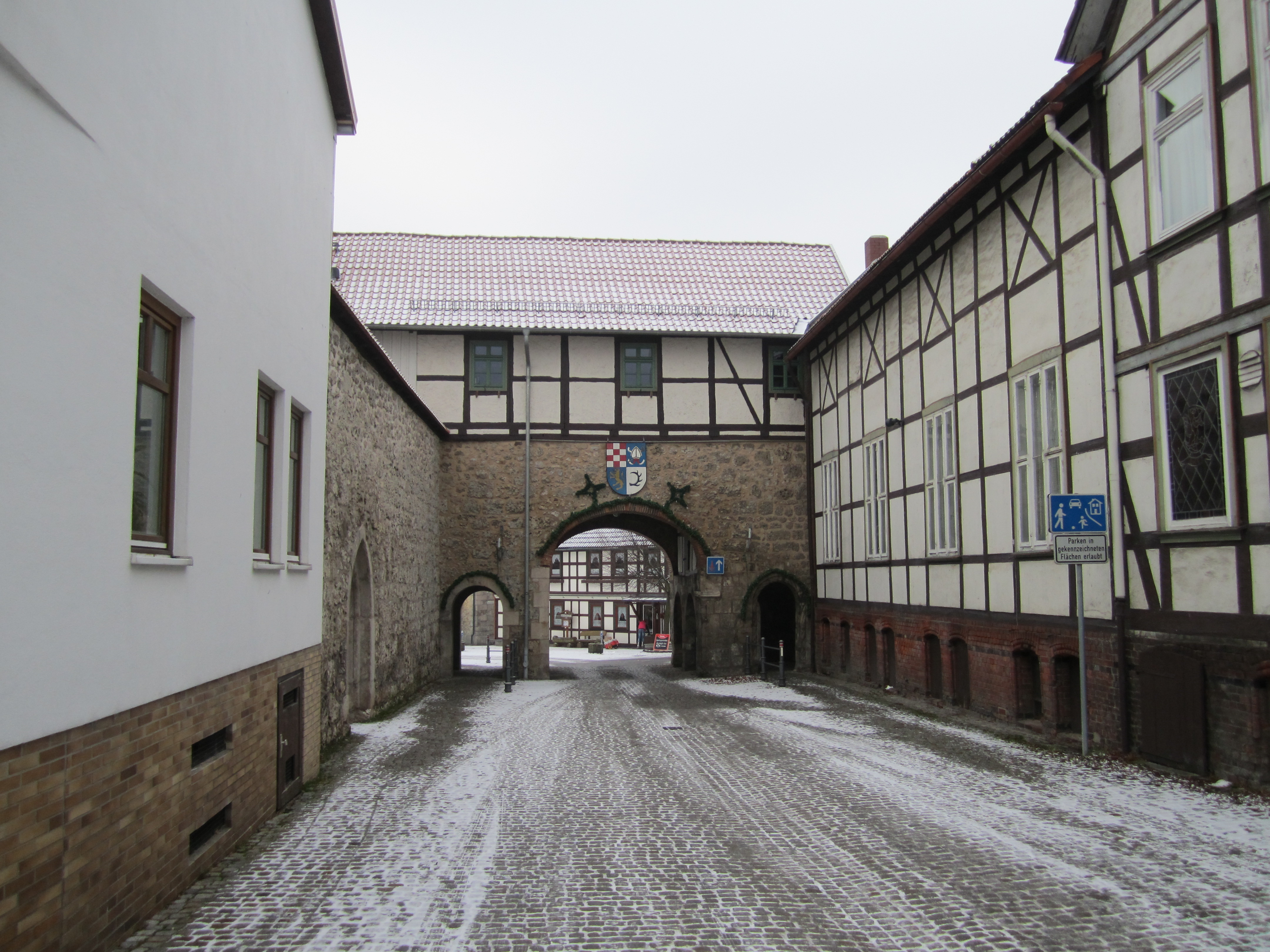 Gate of former Walkenried abbey. Walkenried, Lower Saxony, Germany.